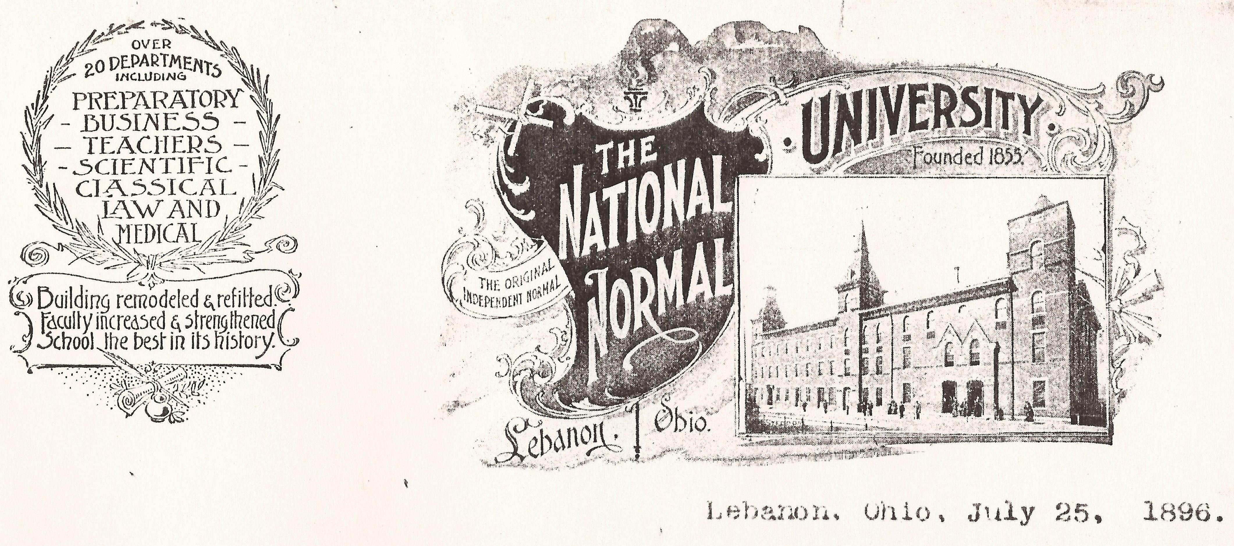 Letterhead for The National Normal University, Lebanon, Ohio, on a letter dated 25 July 1896.